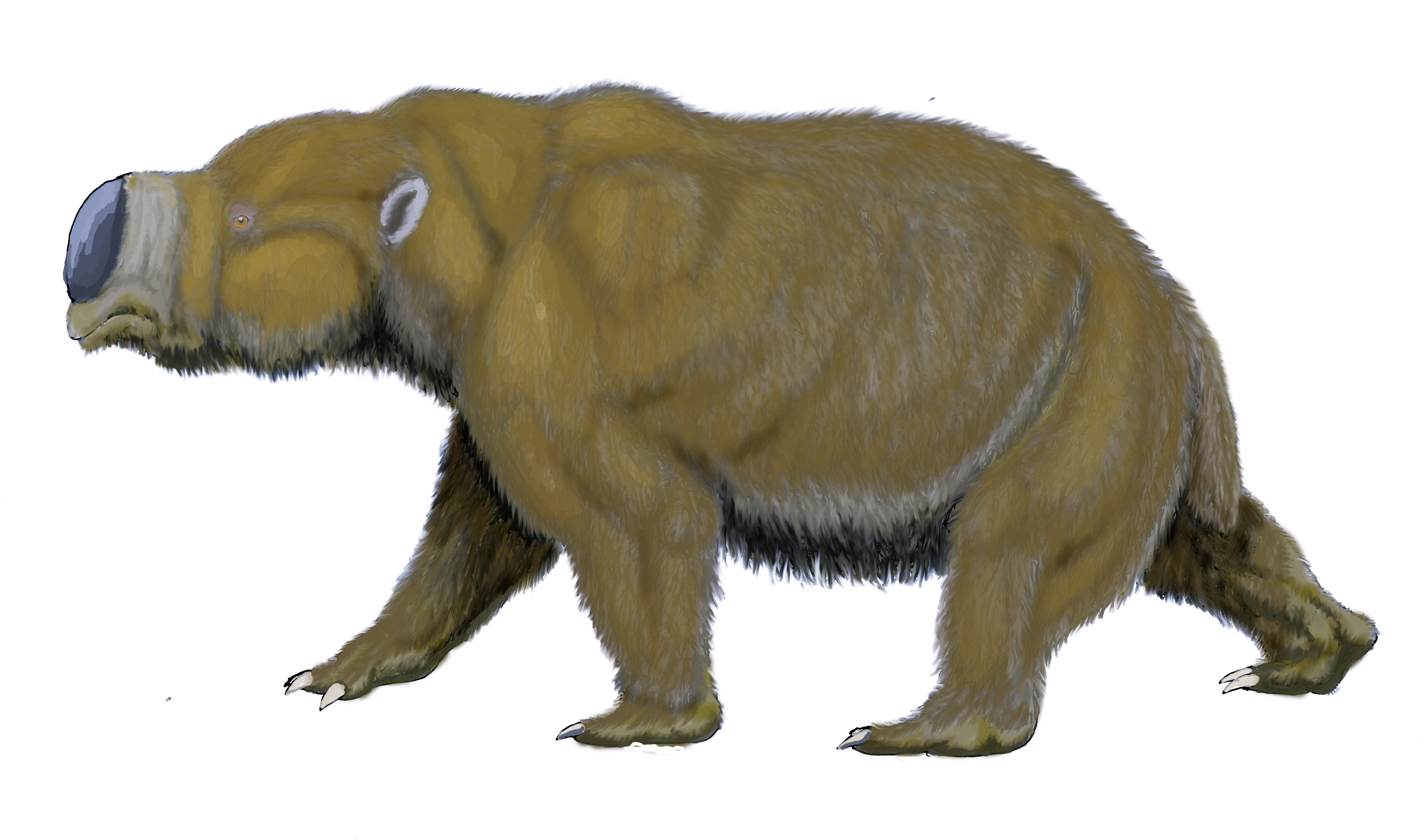 Diprotodon optatum – a giant marsupial from Pleistocene of Australia.